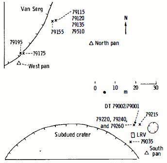 Planimetric map of Station 9 of Apollo 17. Figure 6-123 of Apollo 17 Preliminary Science Report.